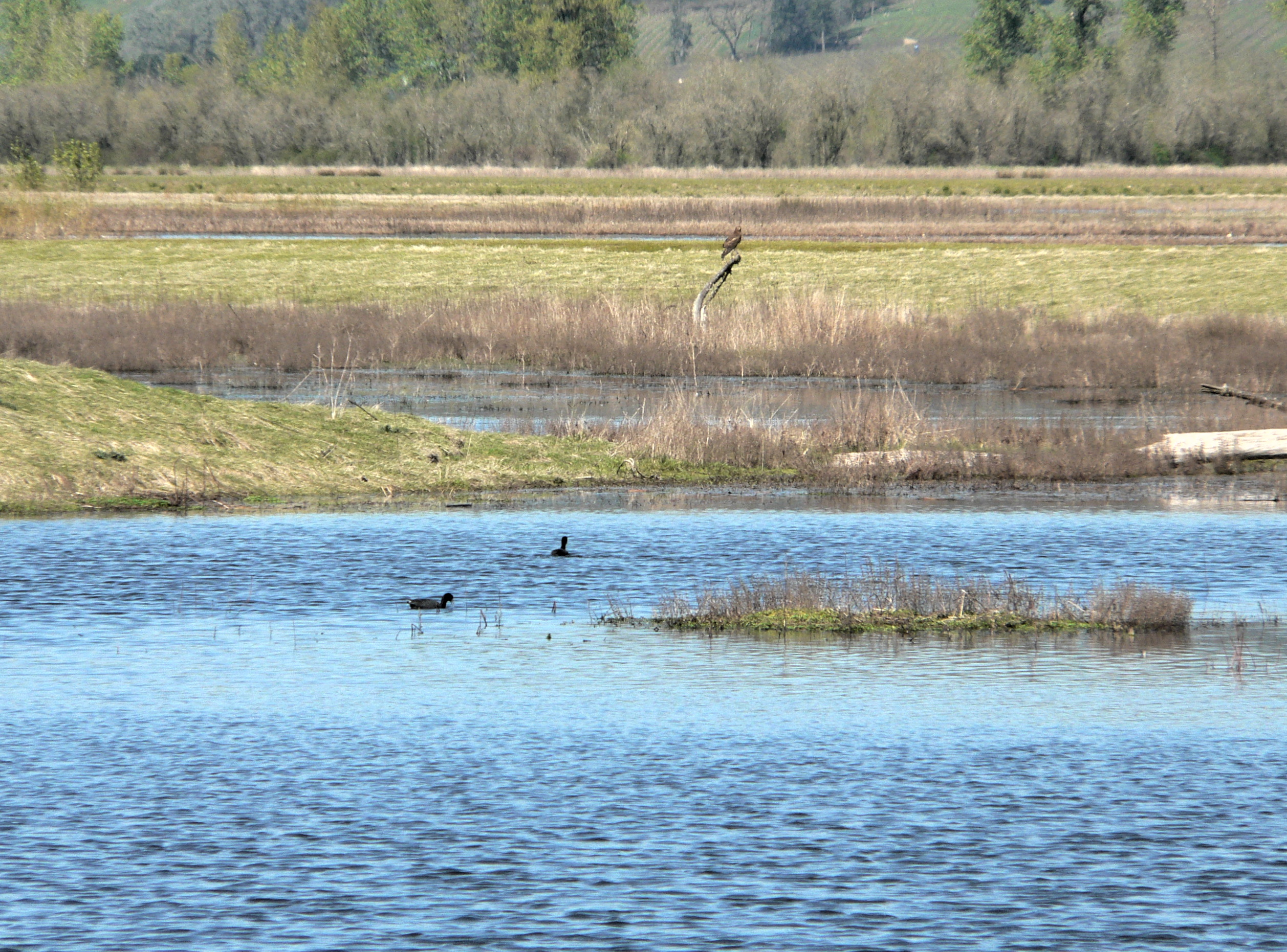 American Coot and Northern Harrier on Pintail Marsh, Ankeny National Wildlife Refuge